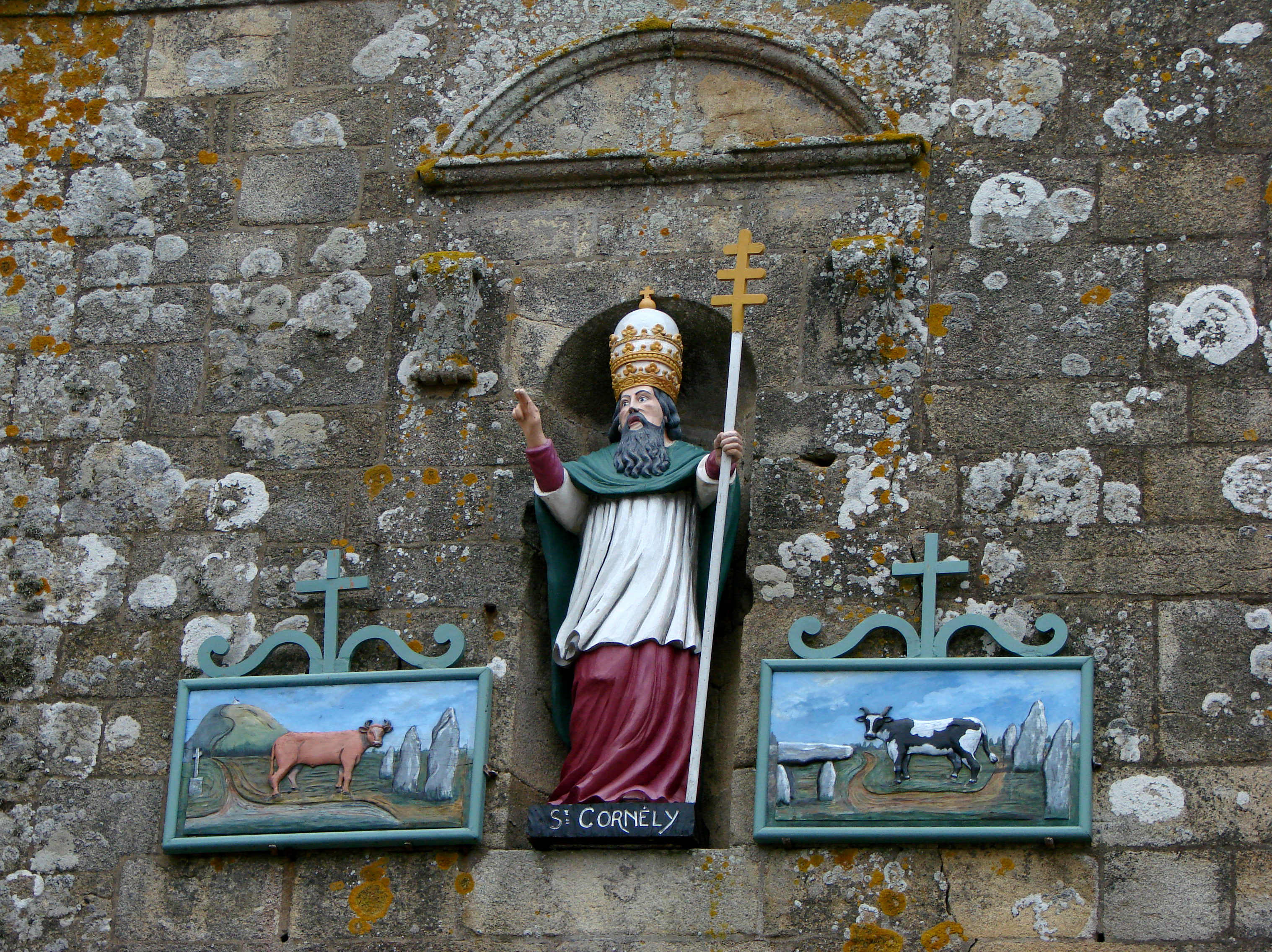 Saint Cornely Church, Carnac church, in Brittany (France).Statue of Saint Cornély, the protector of the cattle.